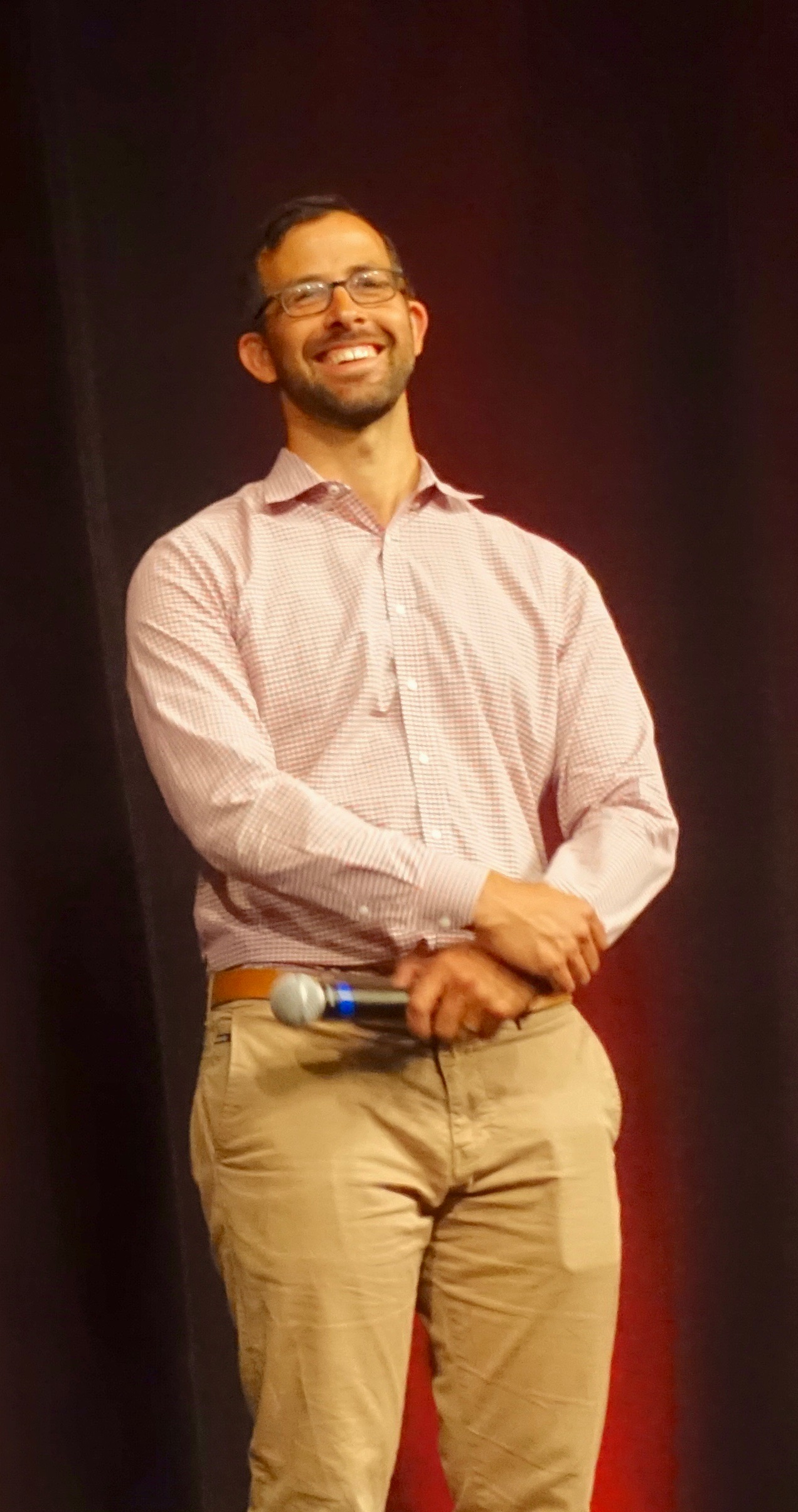 Andrew "Drew" Baglino, Vice President of Technology, Tesla.